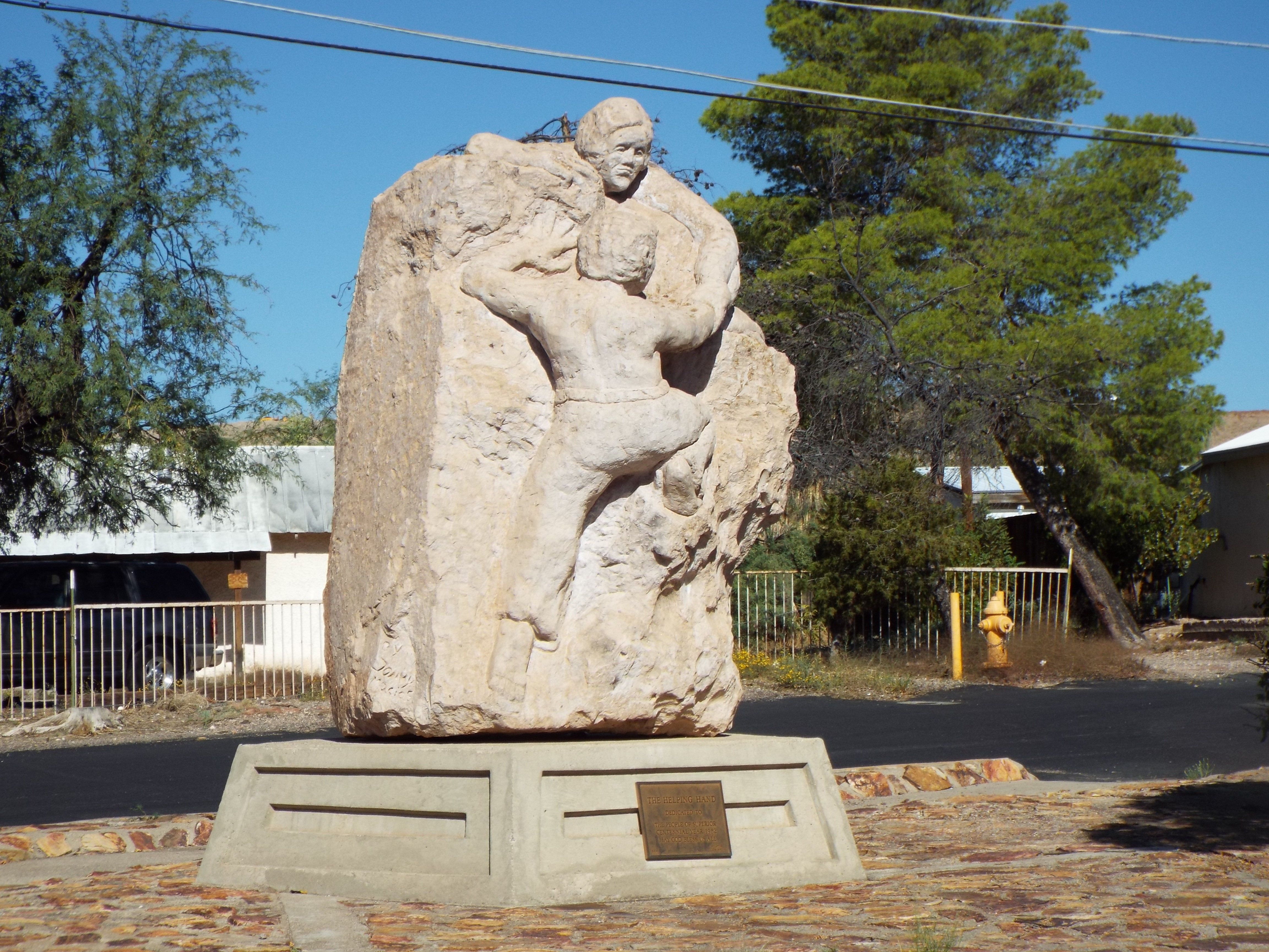 Central Plaza in Superior, Az